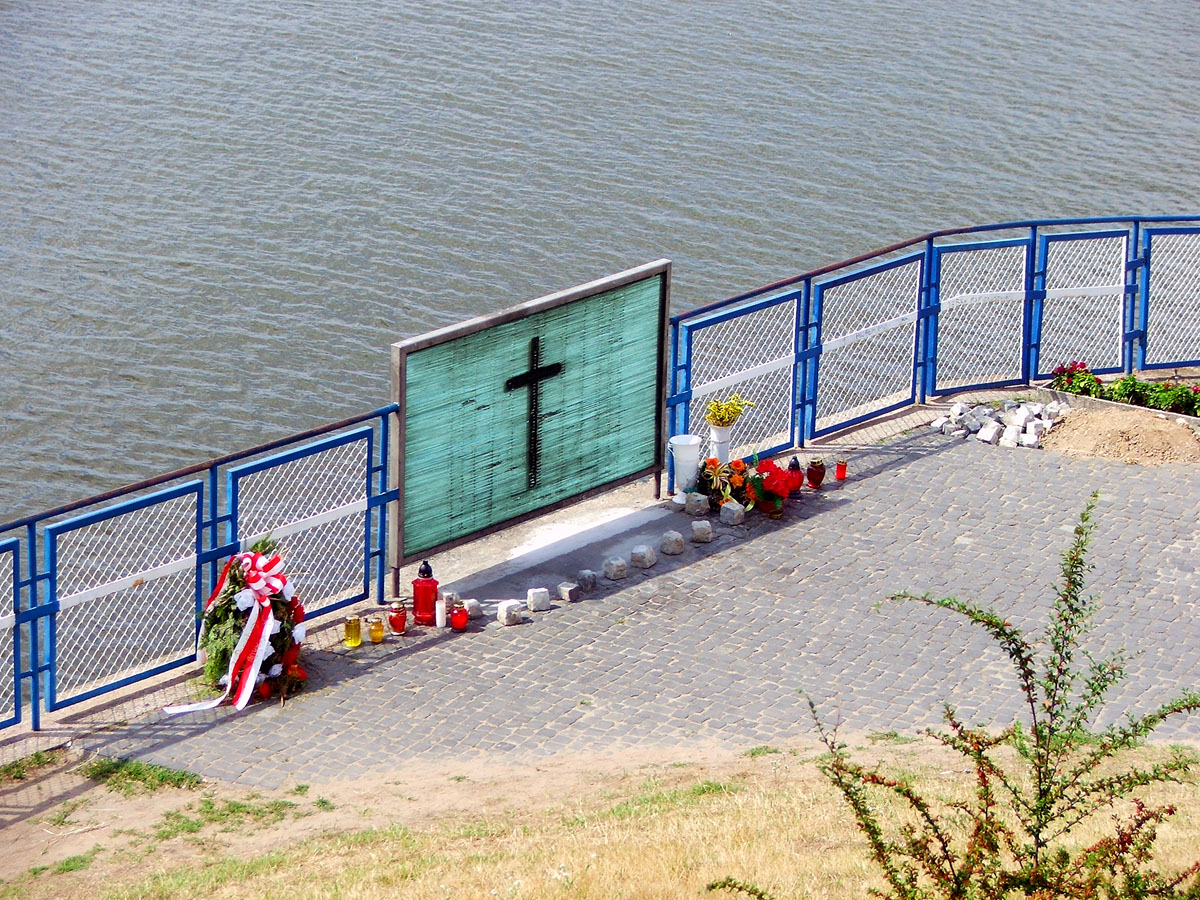 Wloclawek, Poland.